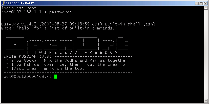 OpenWrt (White Russian 0.9) SSH session after root login in PuTTY client